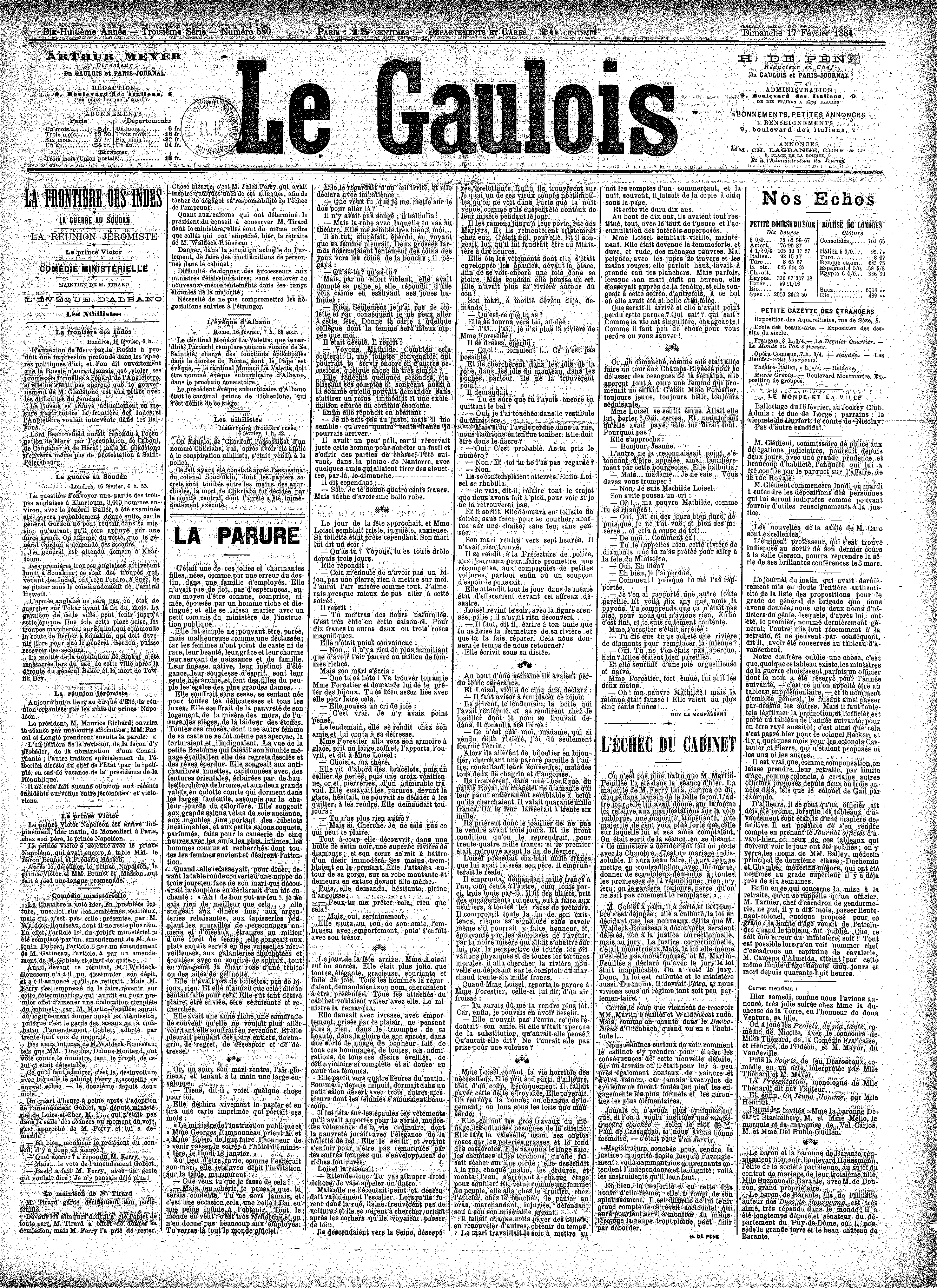 Frontpage of the French daily newspaper Le Gaulois, issue 580 of Sunday, February 17th, 1884, with the first edition of the short story The Necklace (La Parure) by Guy de Maupassant.